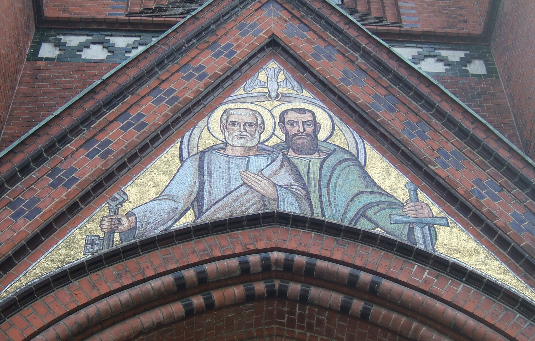 Mosaic of the patrons of Gliwice's cathedral St. Peter and Paul.